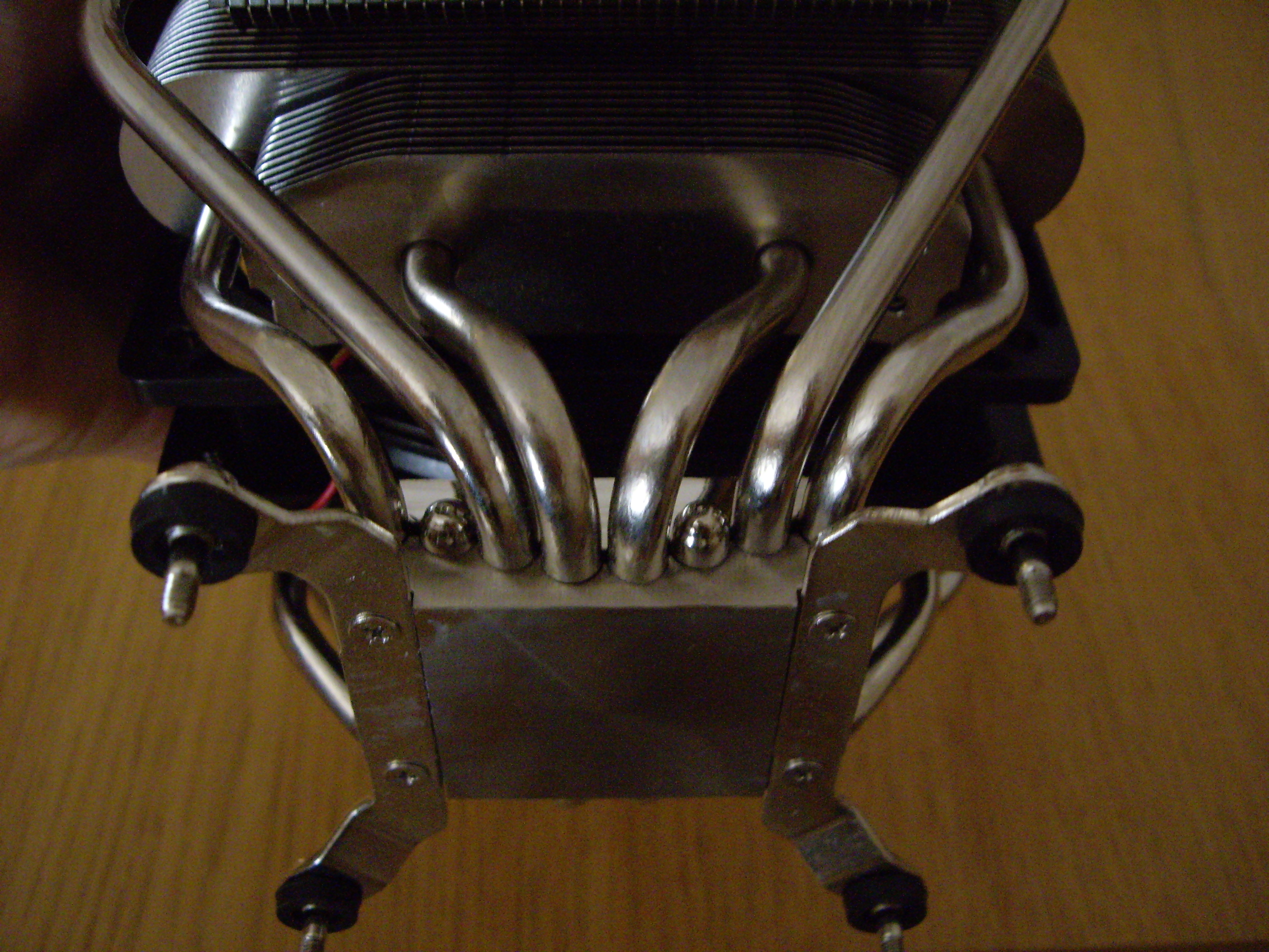 The heatpipes on a Cooler Master V8 heatsink.